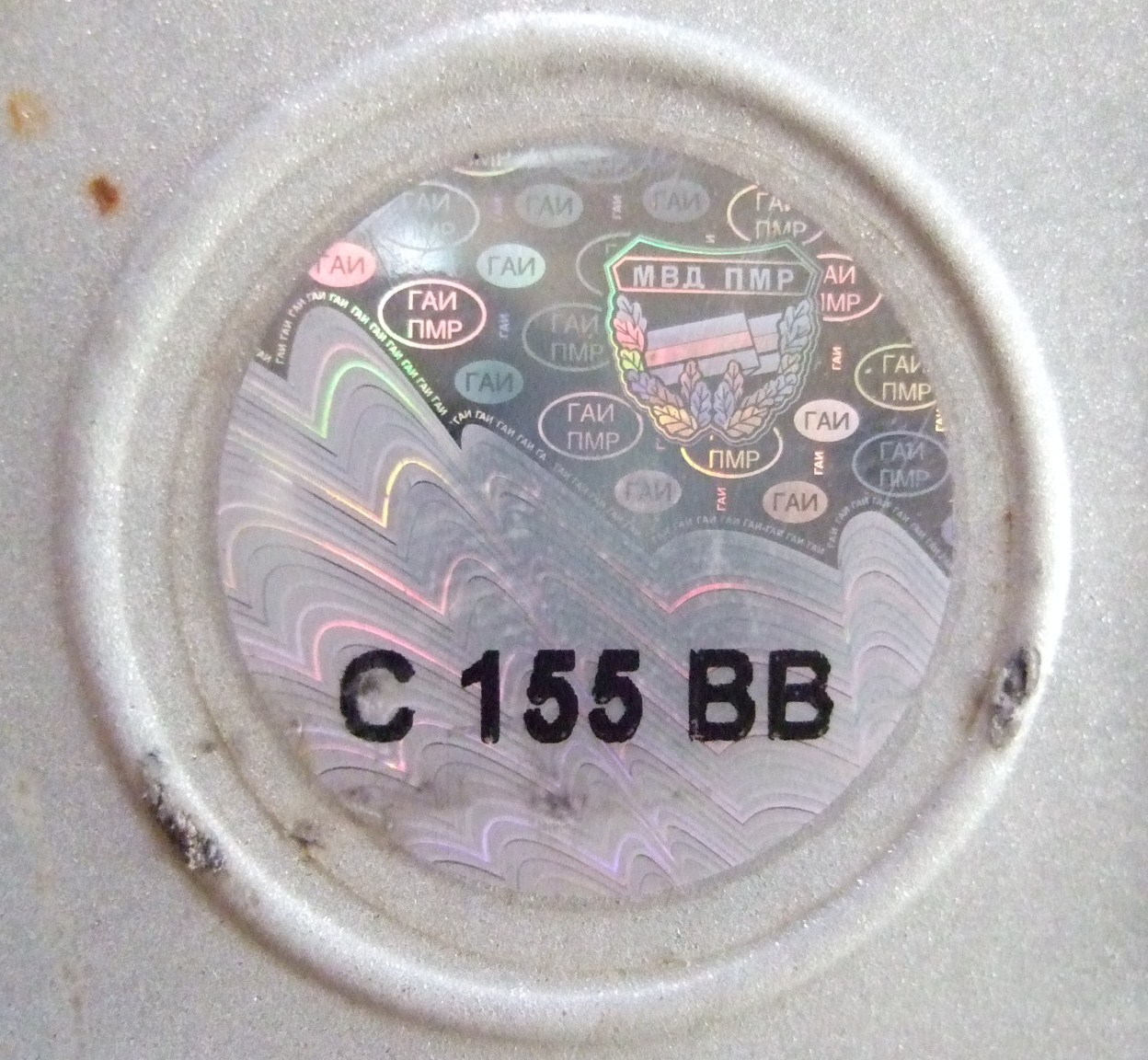 Close up the seal on the Transnistria license plate. The plate's serial number is also shown in this seal.